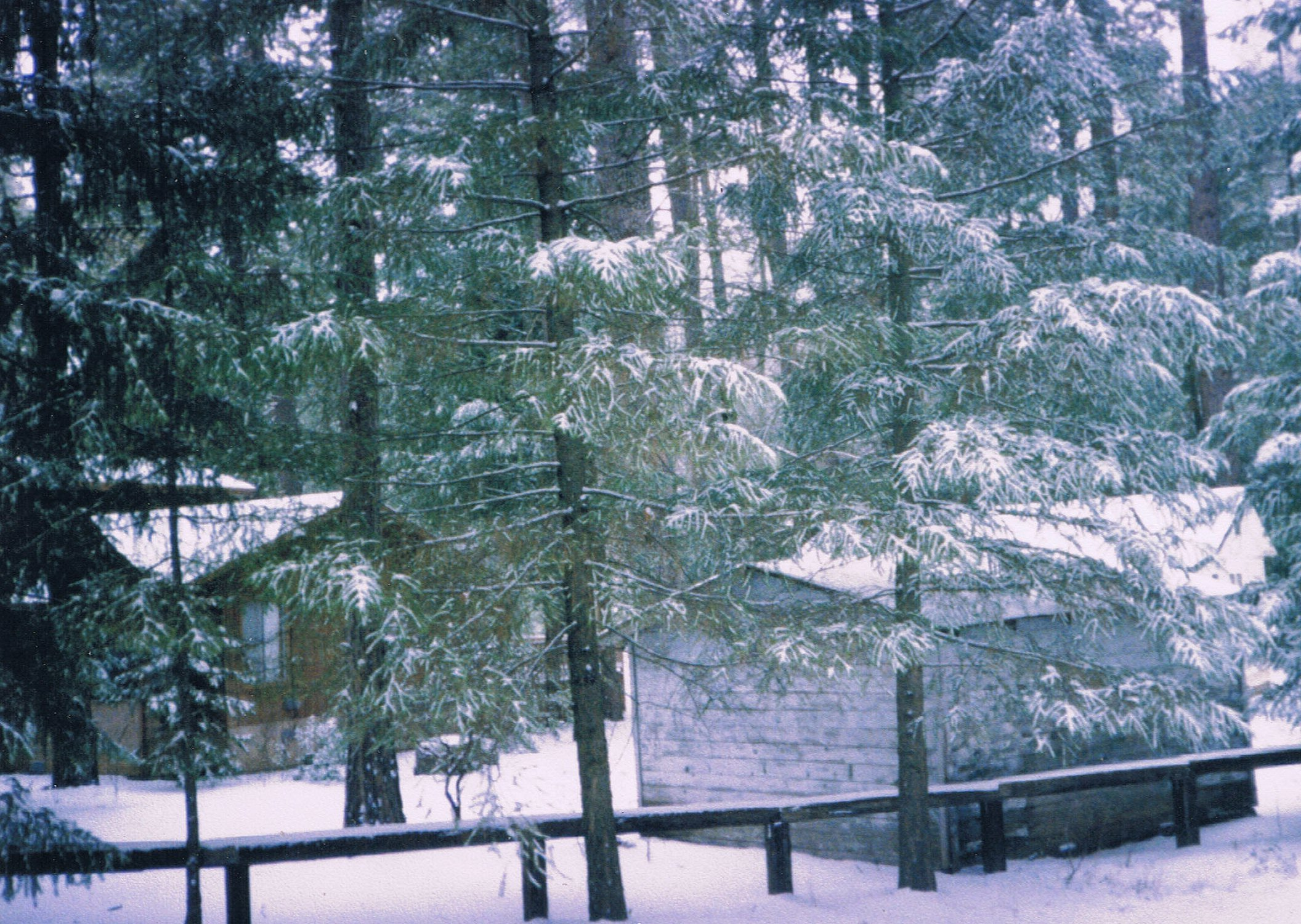 Winter scene in Loch Lomond, Lake County, California